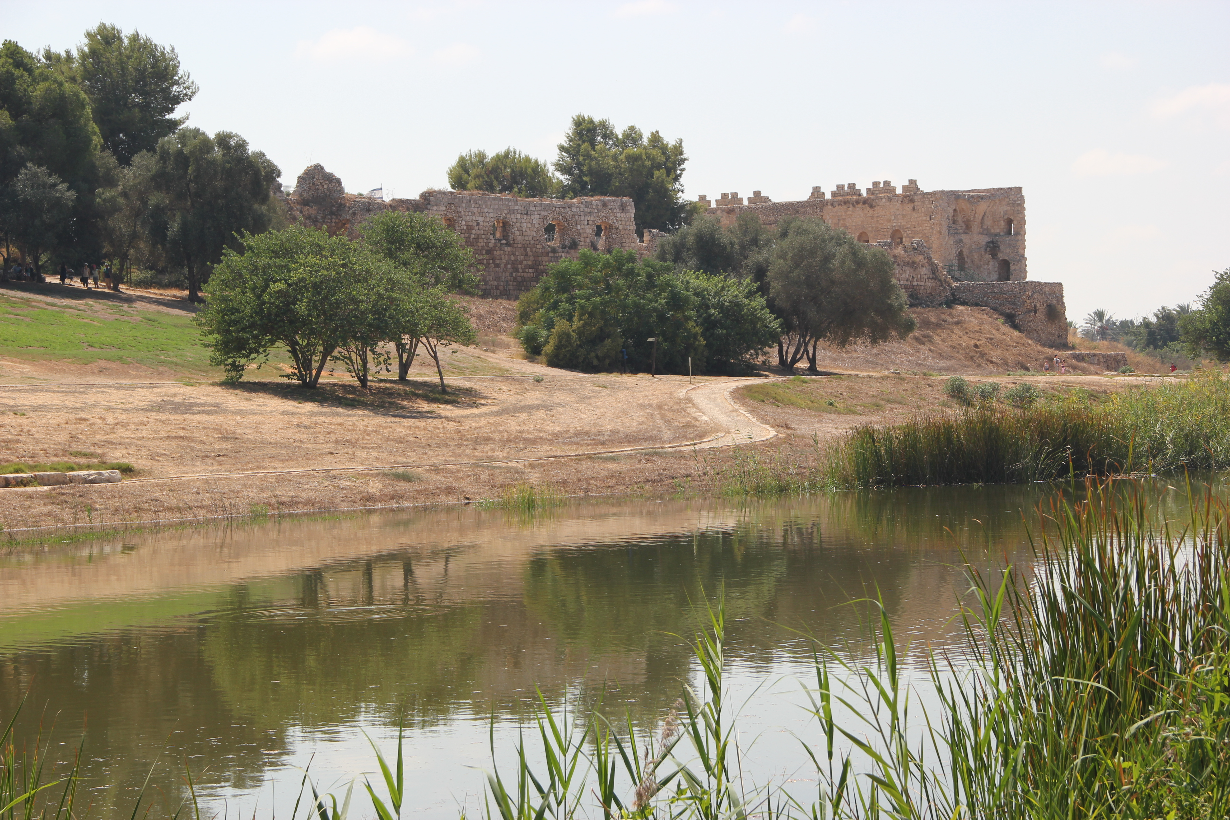 Antipatris1